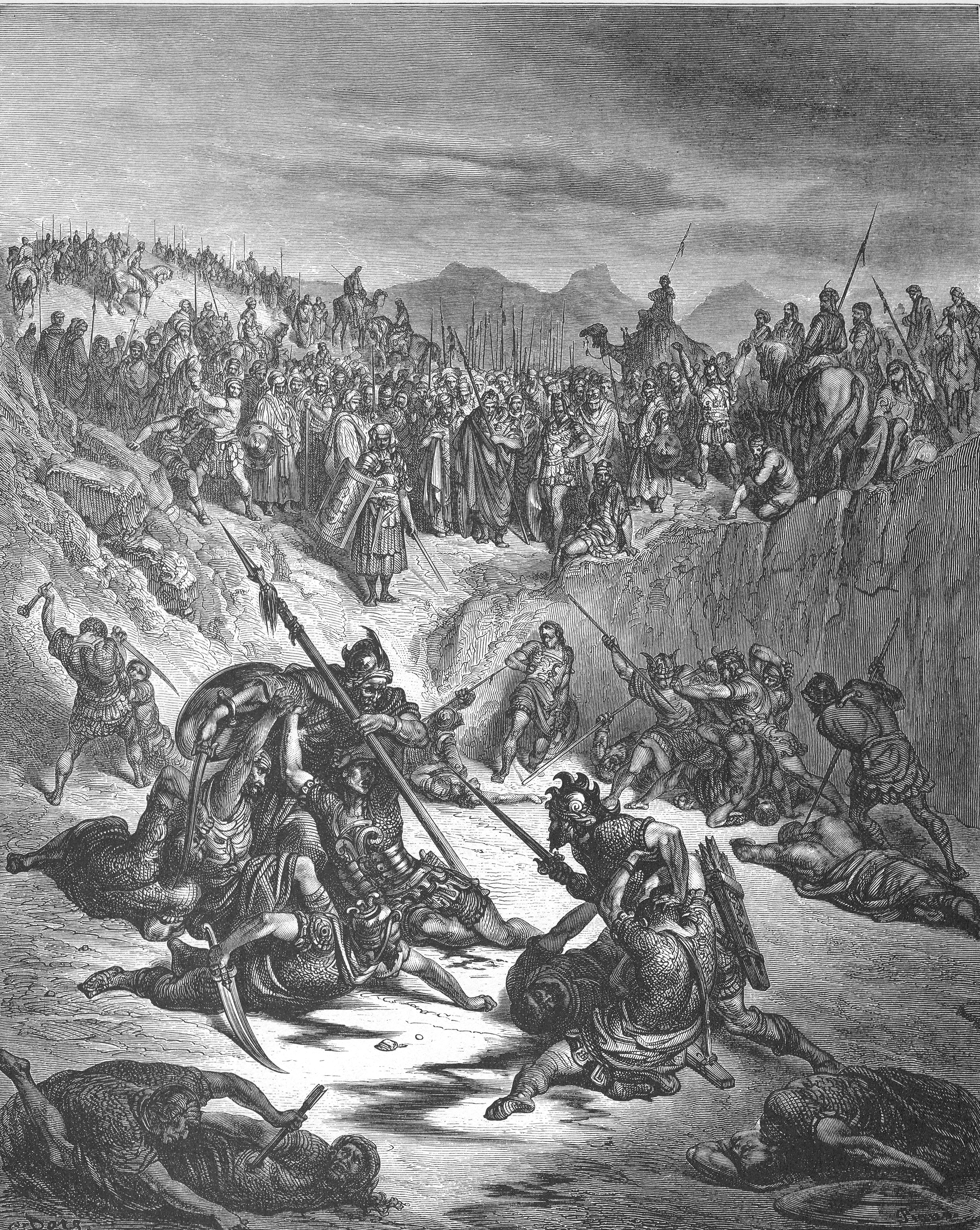 Combat between Soldiers of Ish-bosheth and David (2Sam. 2:5-17)